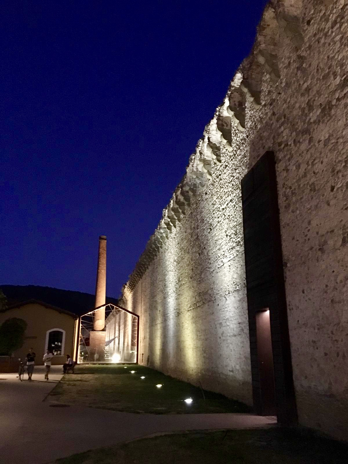 Prato, medieval walls